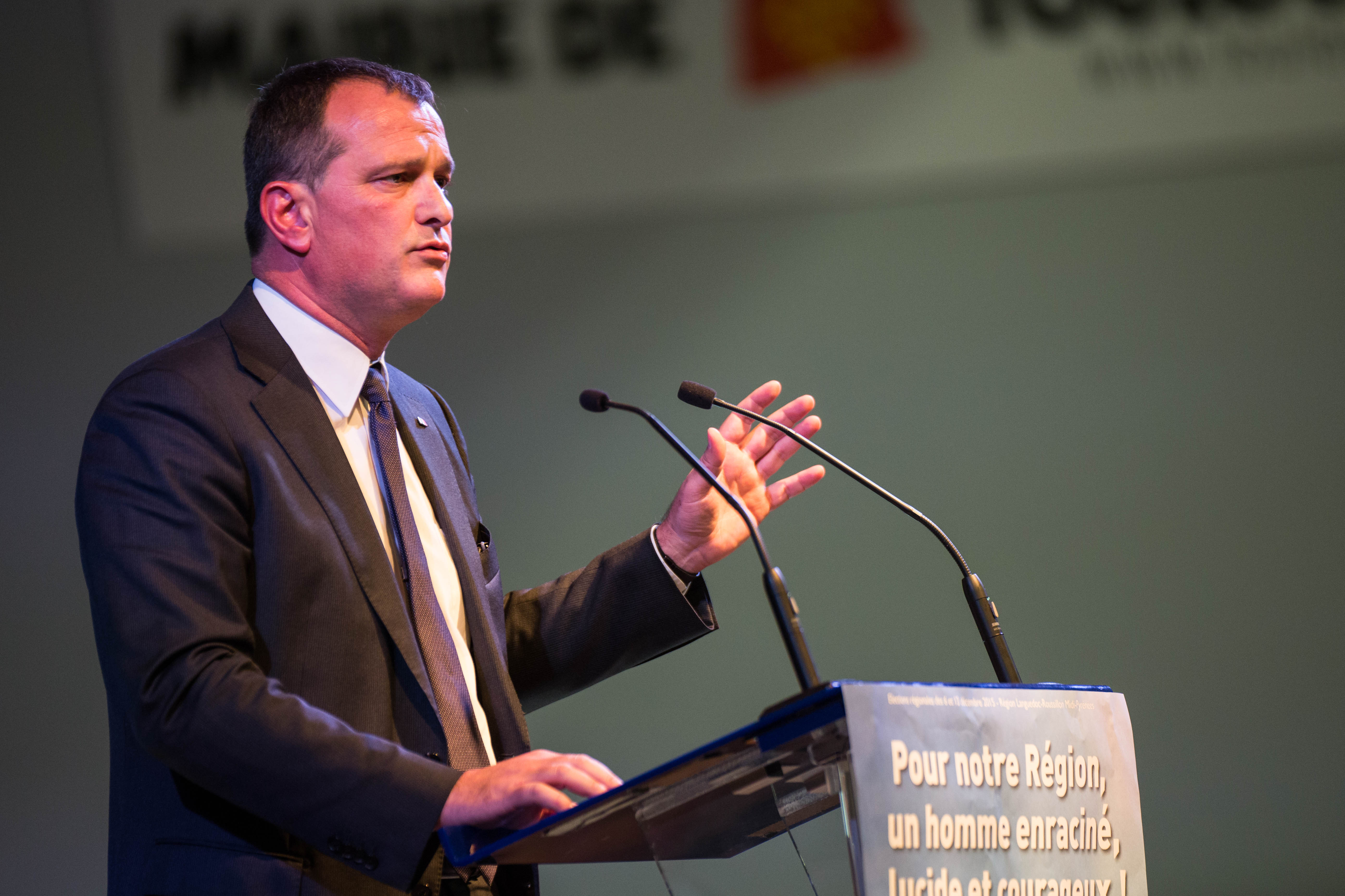 Louis Aliot in 2015